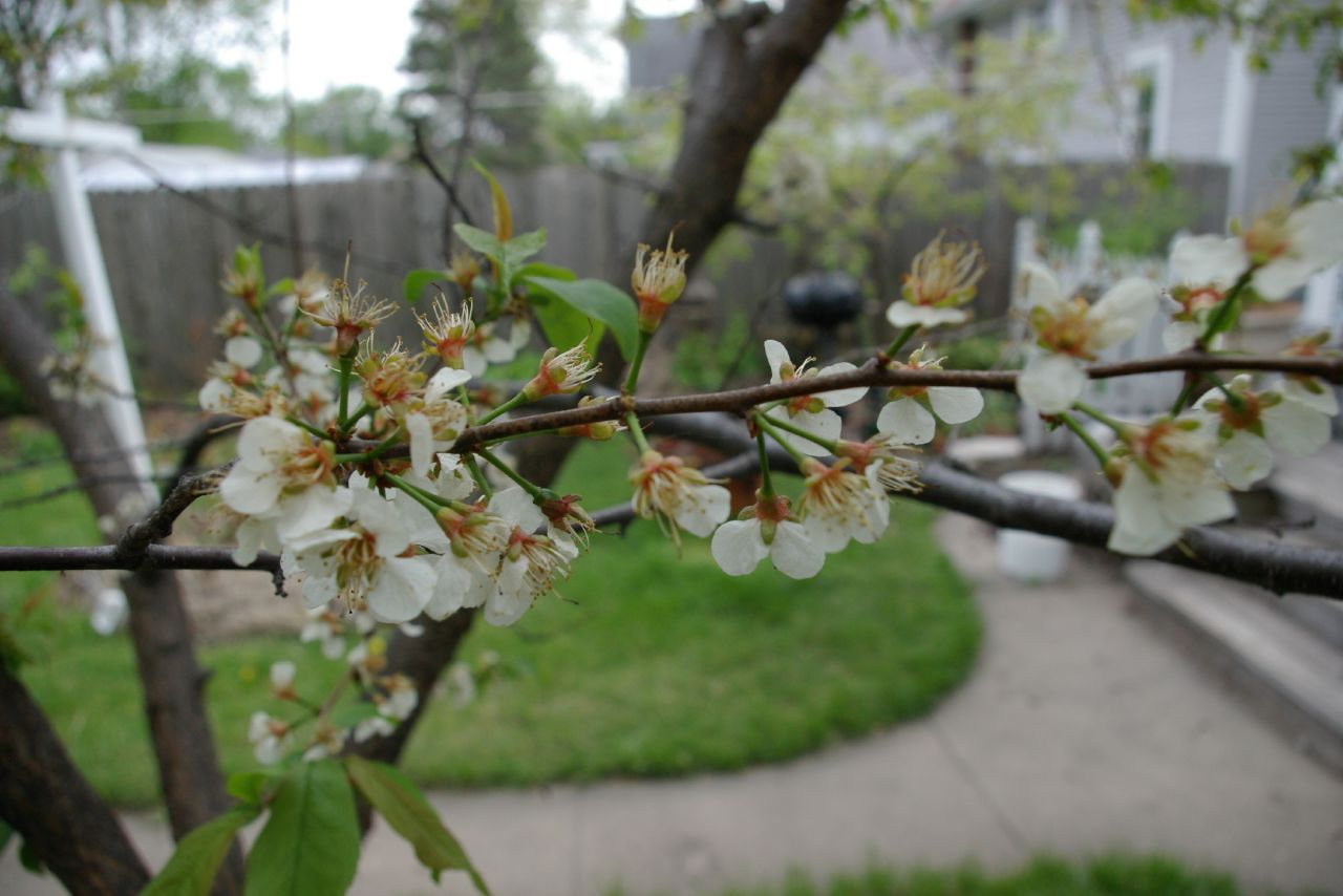 American Plum (Prunus americana), May 6, 2007, Minneapolis